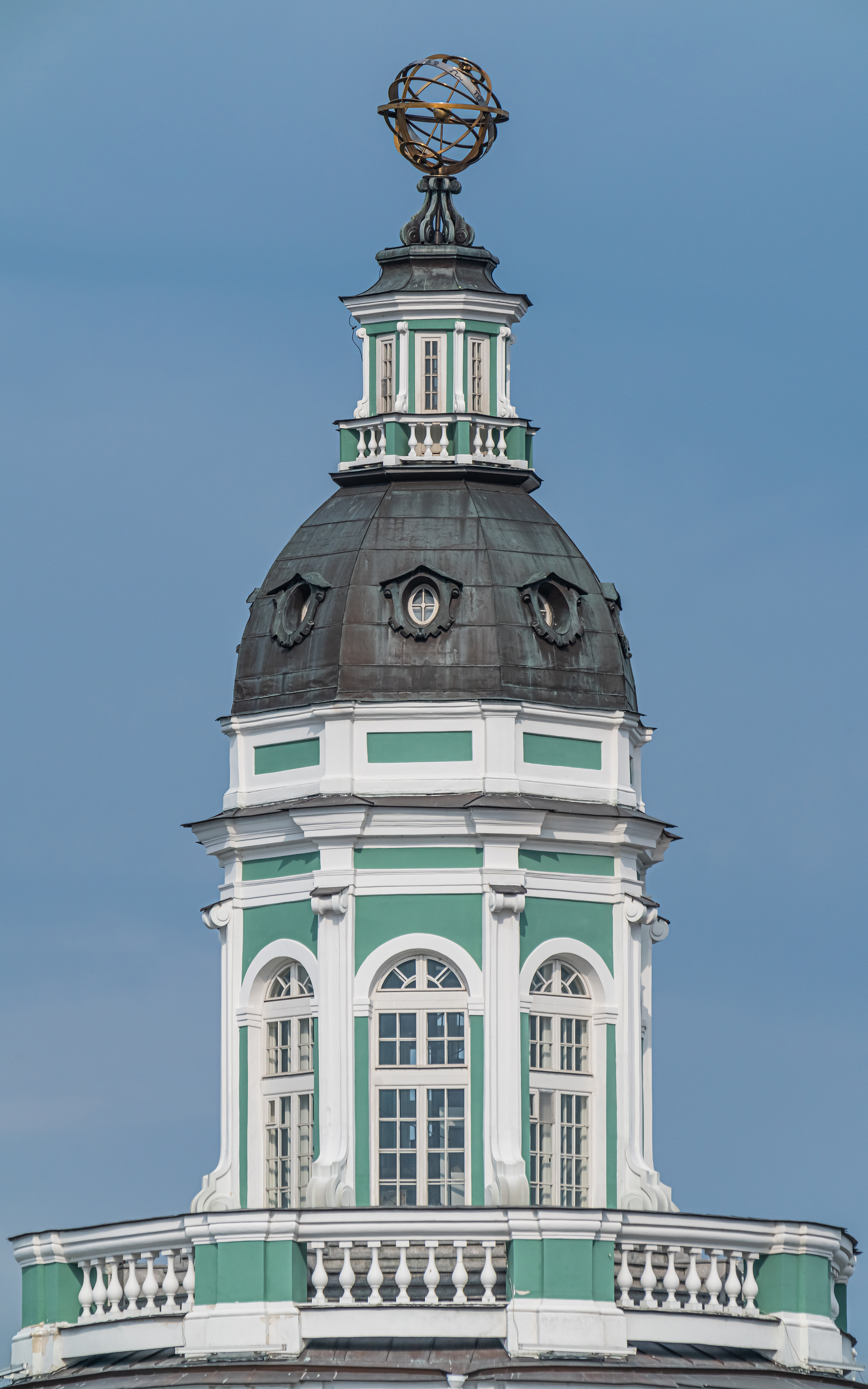 Tower of the Kunstkamera building on Vasilievsky Island in Saint Petersburg, Russia